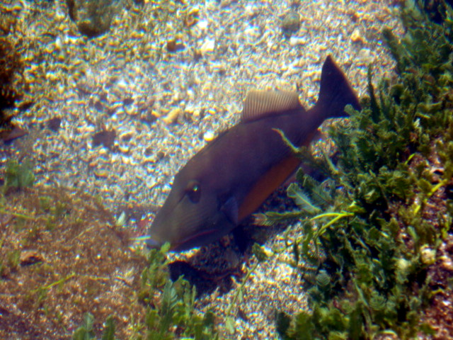 Orangeside Triggerfish, Sufflamen verres: The Orangeside Triggerfish is characterized by its shape and brownish-gray body with the males having a large distinct orange blotch that extends along their lower sides. The females are the same size and shape but without orange coloration. They have fine, small scales and a deep rounded body.The Orangeside Triggerfish inhabits rocky reefs and slopes with boulders adjacent to sand. It feeds on small crustaceans, sea urchins, and worms. They can reach 13 inches and up to 2 or 3 pounds.